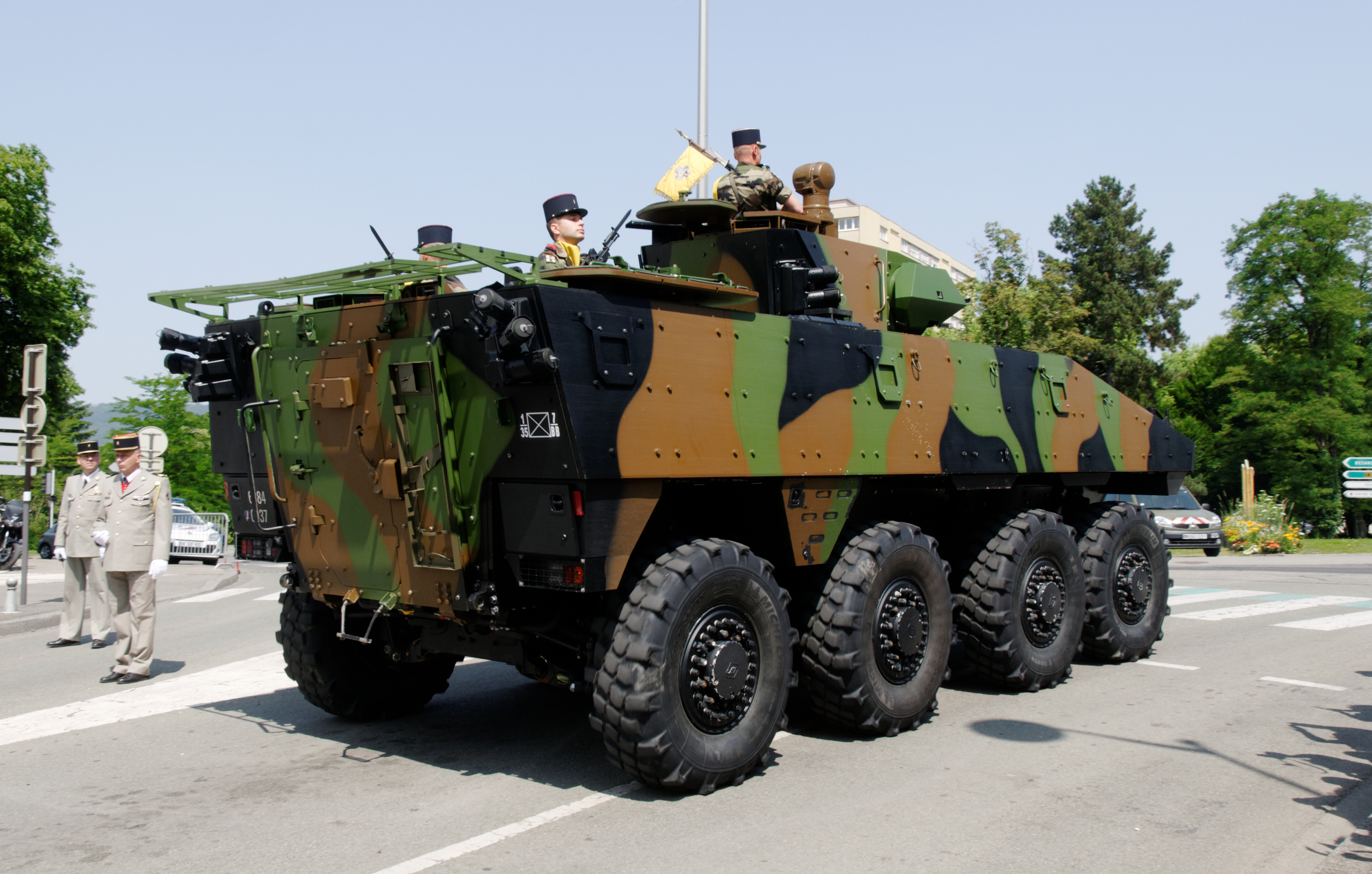 This photograph was taken with a Nikon D300 Personality rights warningAlthough this work is freely licensed or in the public domain, the person(s) shown may have rights that legally restrict certain re-uses unless those depicted consent to such uses. In these cases, a model release or other evidence of consent could protect you from infringement claims.